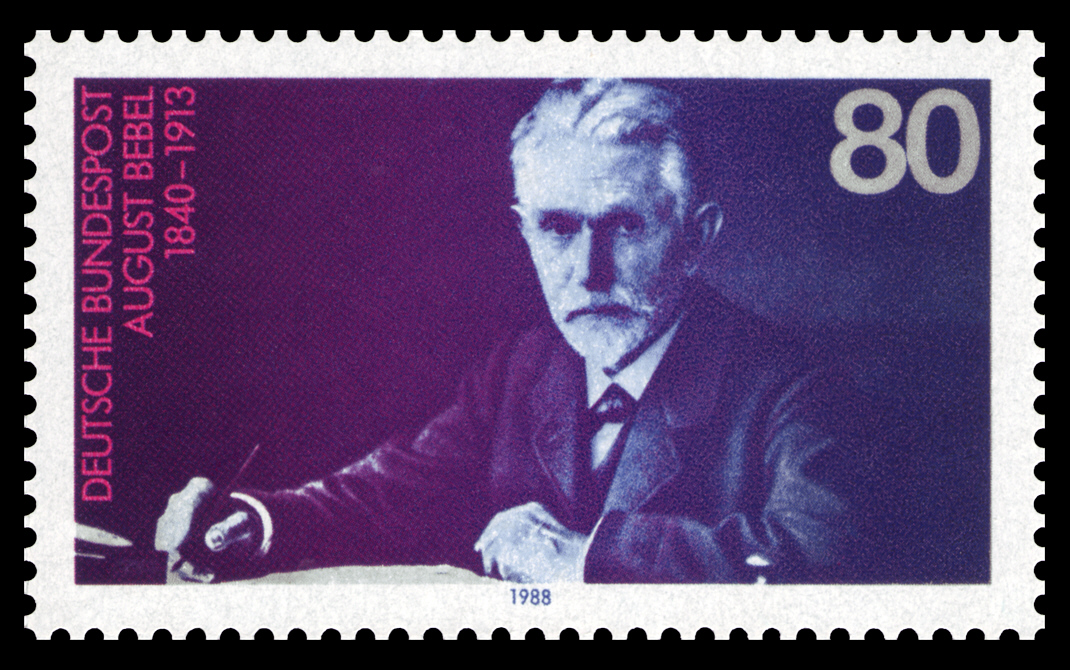 75th day of death of August Bebel (1840—1913)